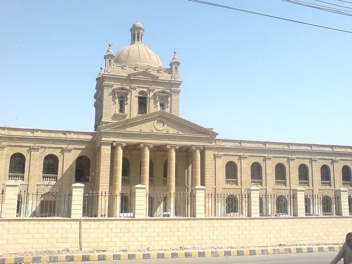 D.J. Science College This is a photo of a monument in Pakistan identified as the SD-P-79